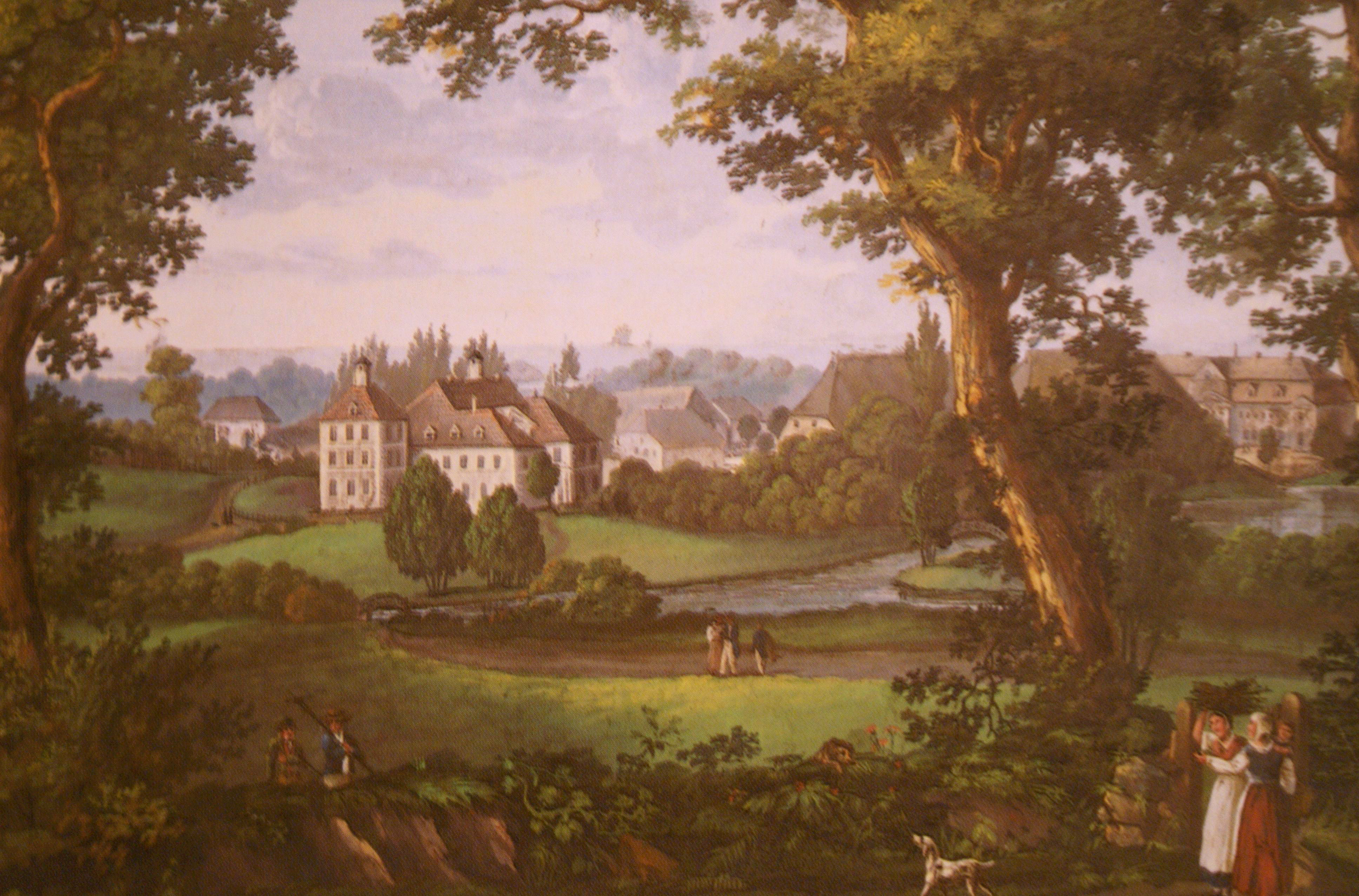 Panker Manor in the 19. Century. Painting by J. L. v. Motz